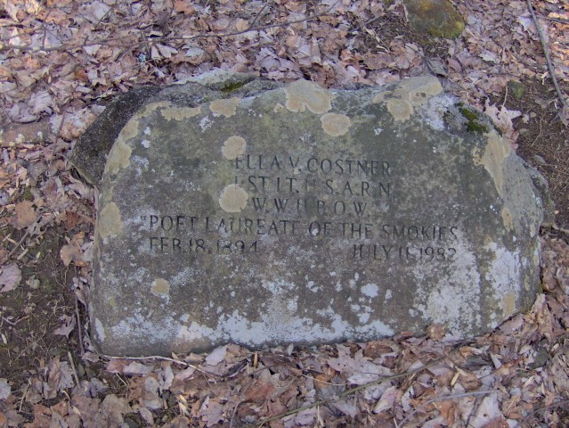 The grave of Ella Costner, "Poet Laureate of the Smokies." Costner grew up in Cosby, Tennessee in the early 1900's. The marker reads: ELLA V COSTNER 1ST LT. U.S.A.R.N. POET LAUREATE OF THE SMOKIES FEB 18 1894 JULY 11 1982